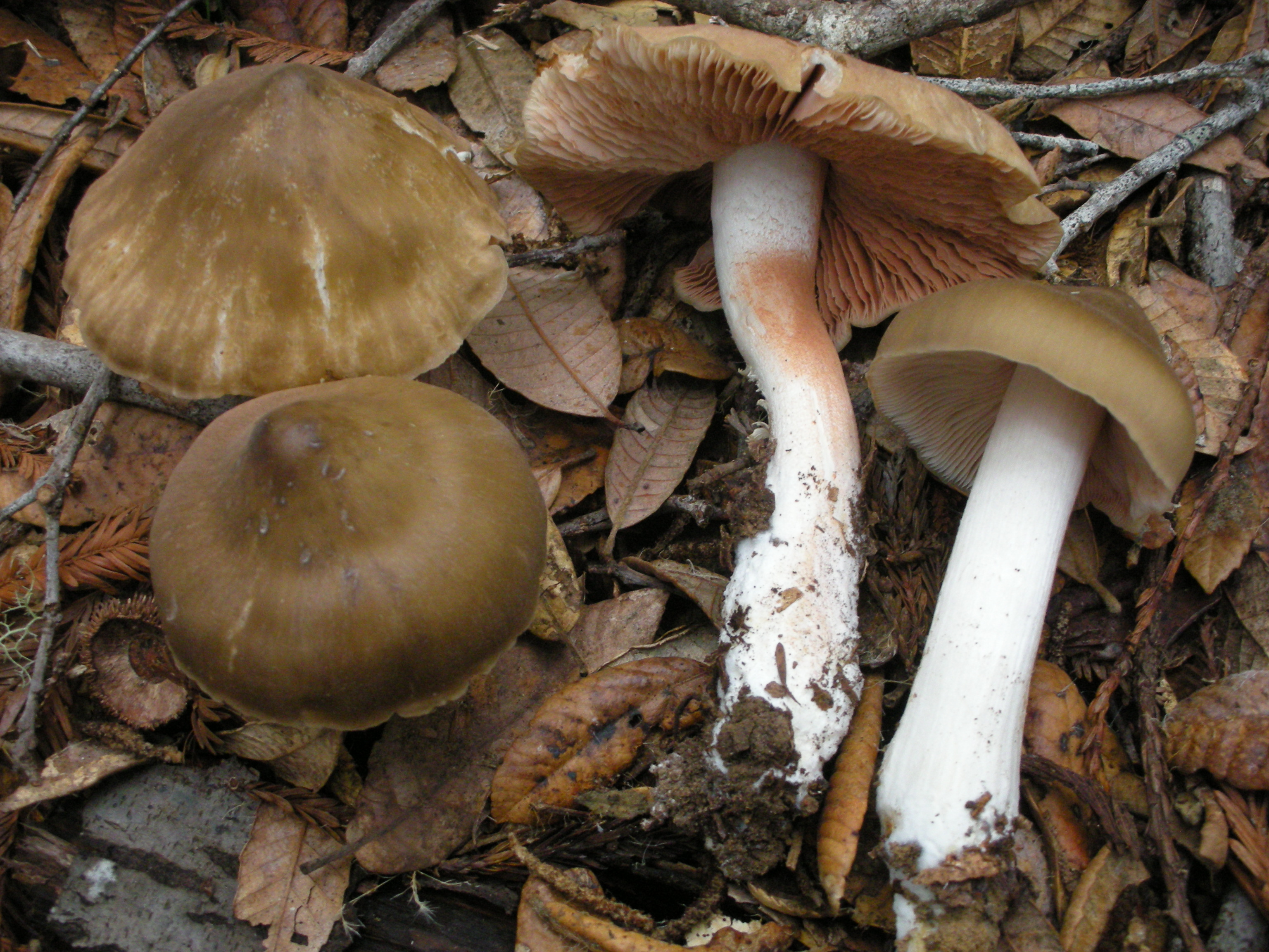 Entoloma aprile Location: Salt Point State Park, Sonoma Co., California, USA Observation Notes: These were identified at the 2008 MSSF Fungus Fair. I couldn’t find much about them except they appear in Roger Phillips’ Mushrooms and other fungi of Great Britain & Europe. For more information about this, see the observation page at Mushroom Observer.